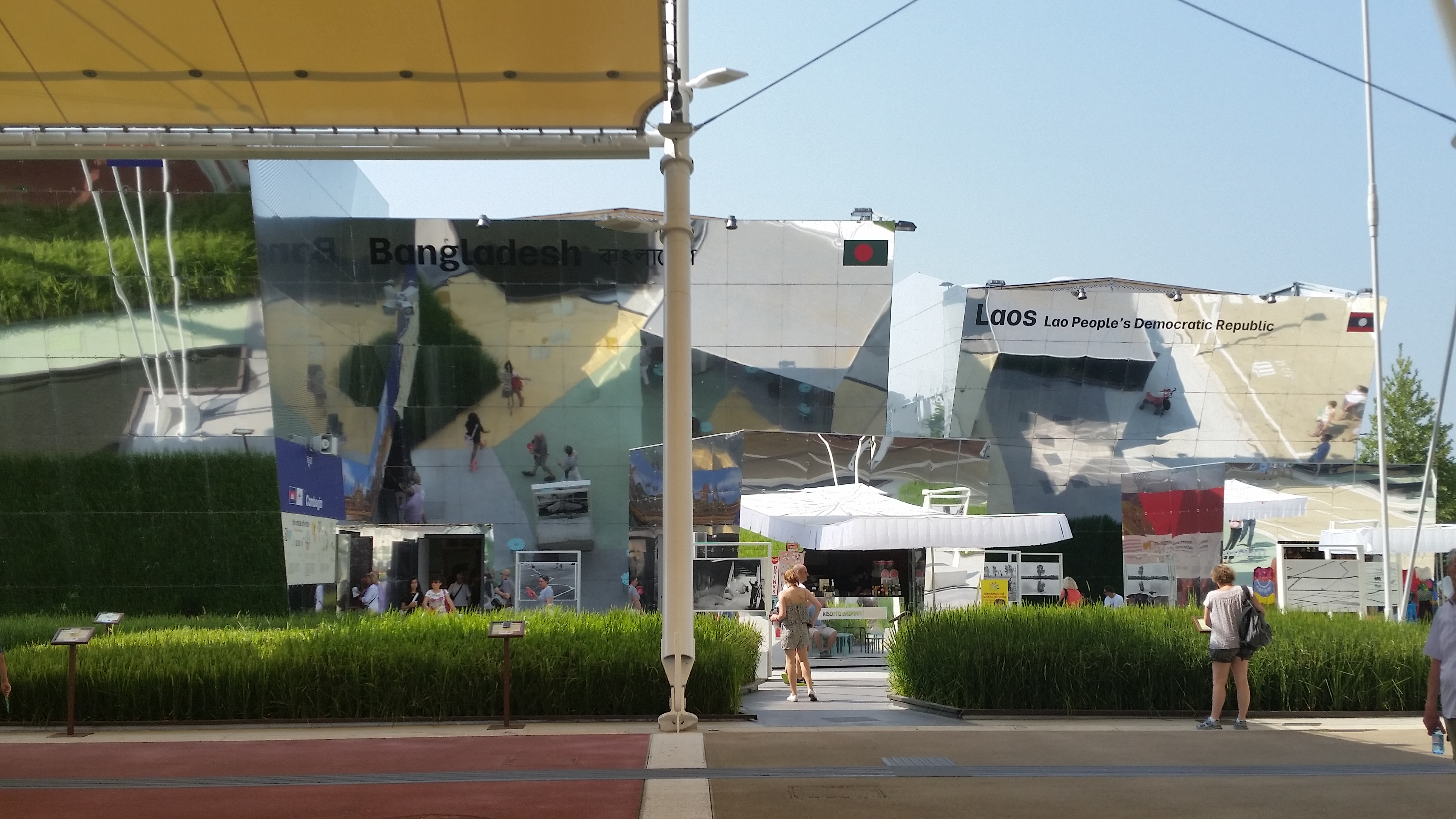 Pavilion of the Expo 2015 located in Milano (Italy)